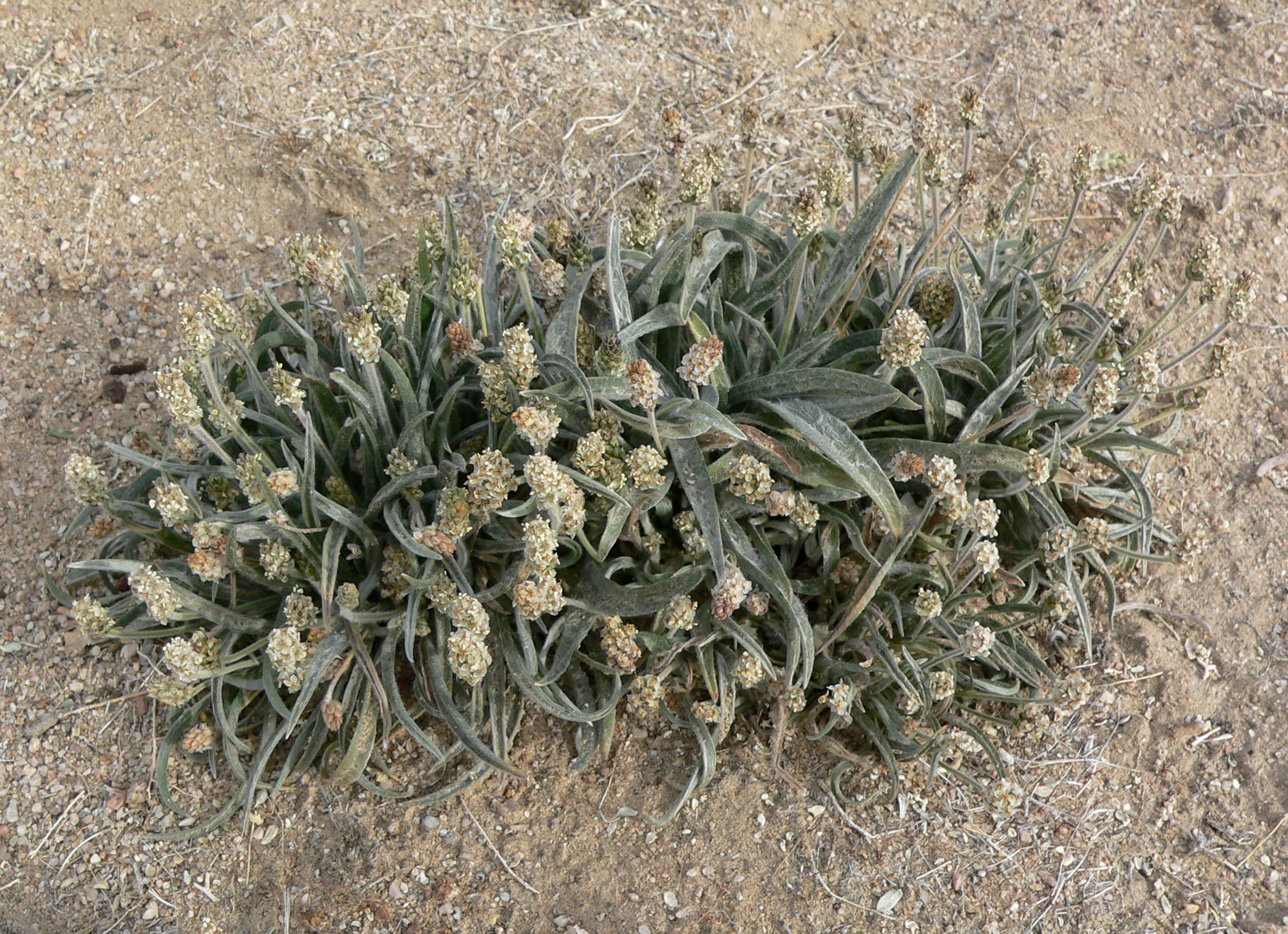 Plantago ovata near the entrance sign for the Mojave National Preserve by the Kelbaker Road, southeast of Baker, California